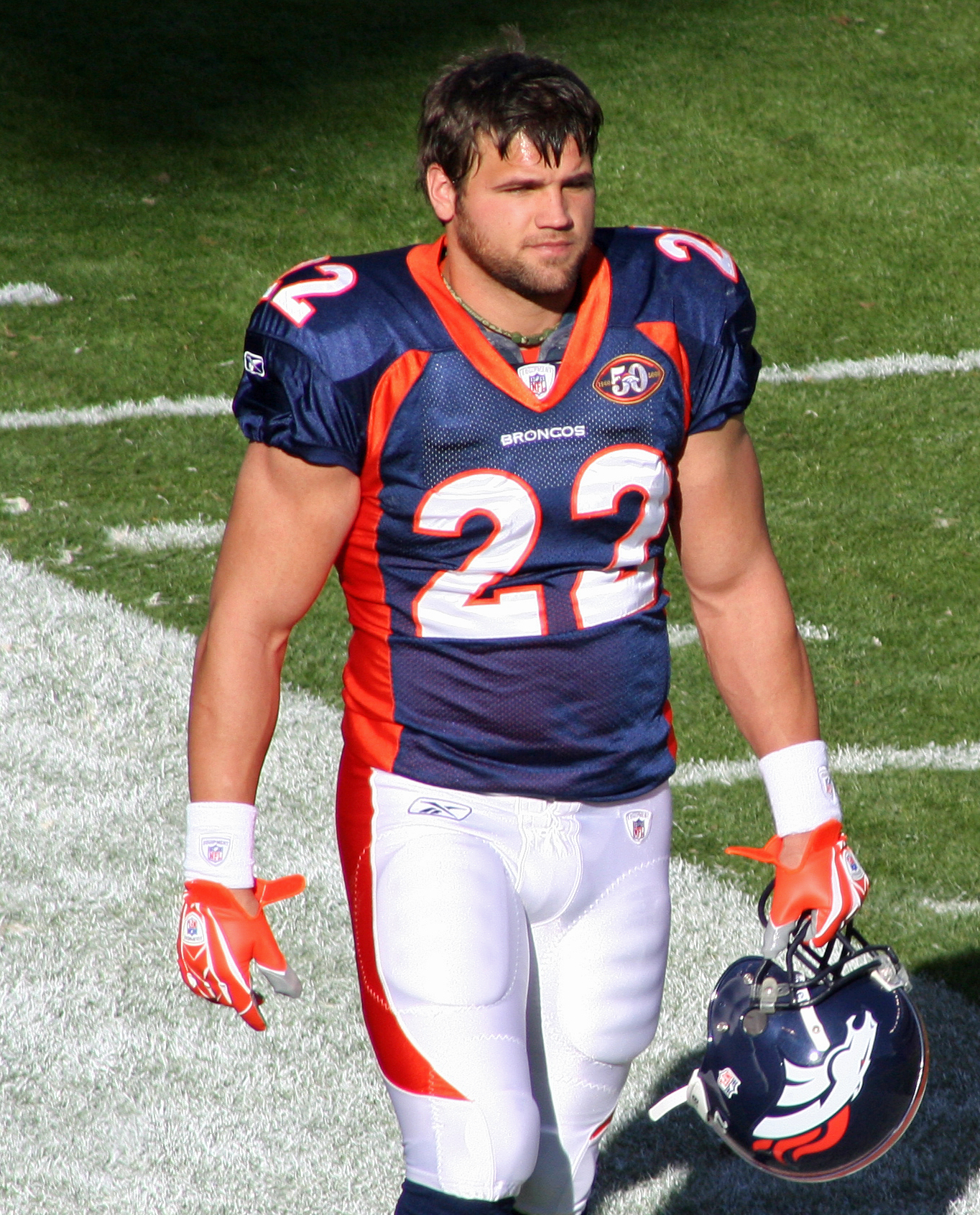 Peyton Hillis, a player on the Kansas City Chiefs American football team, when he was a player on the Denver Broncos team.